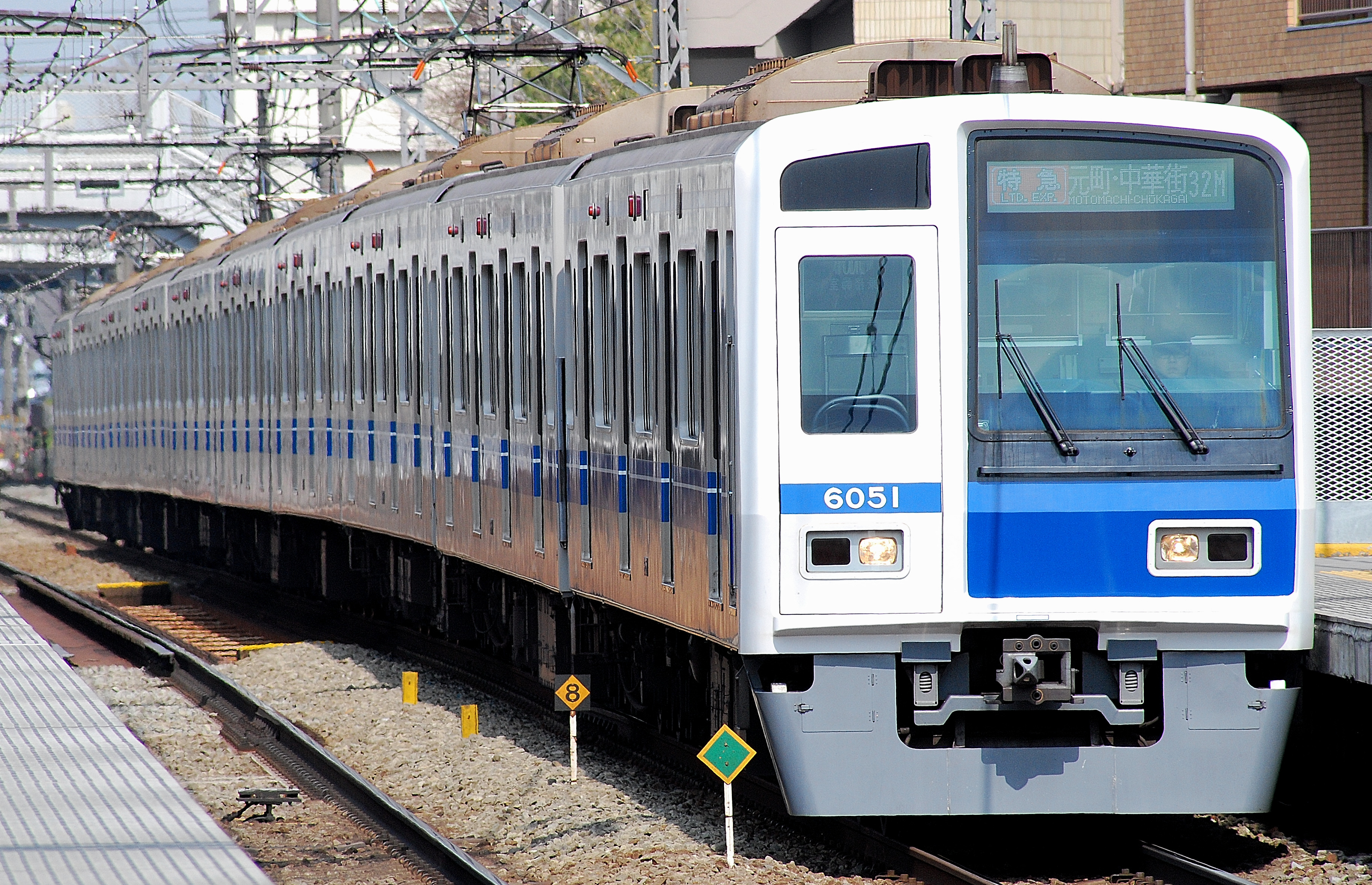 Refurbished Seibu 6000 series aluminium EMU set 6151